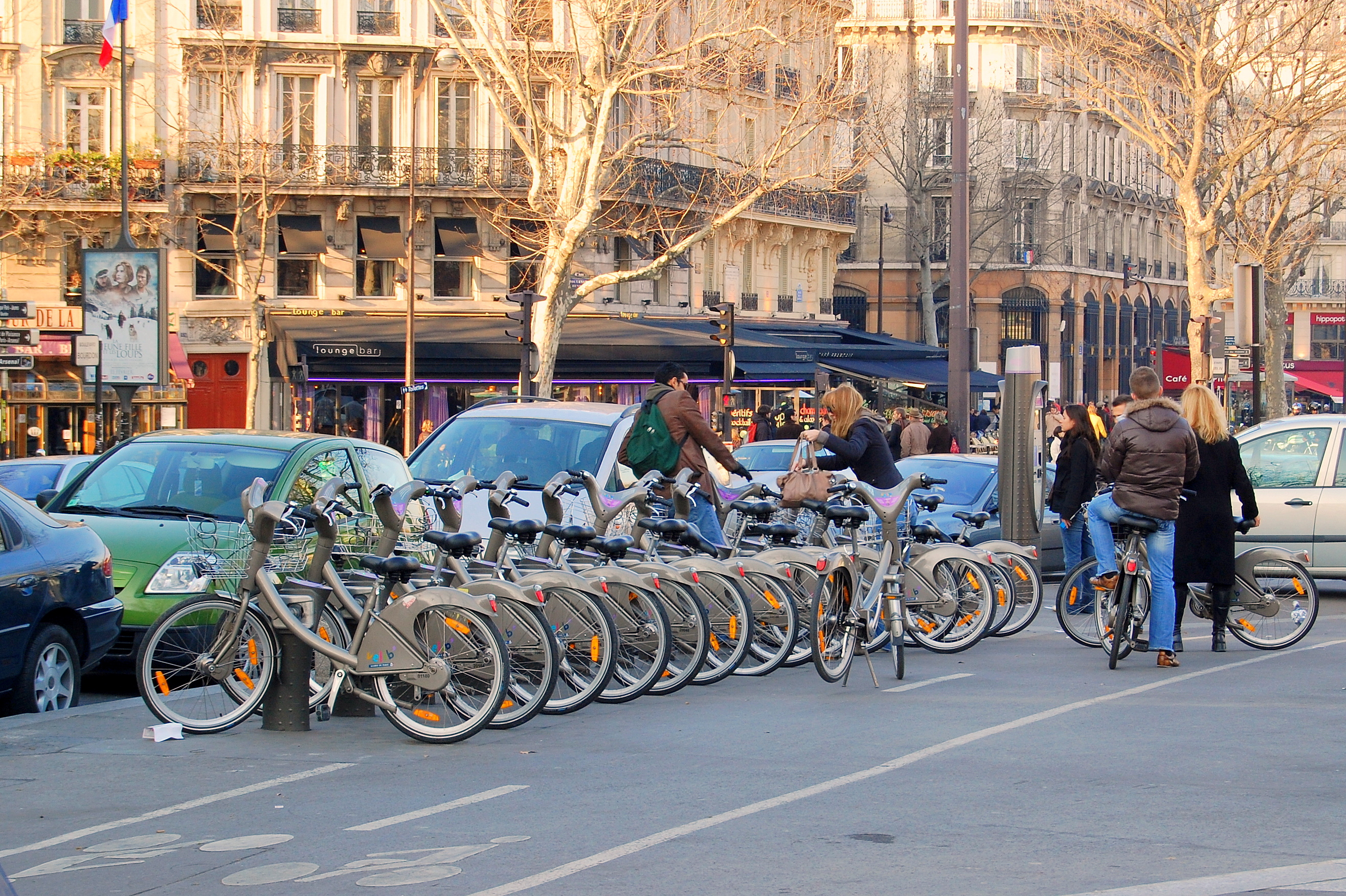 Station Velib' (bike hire service) near Place de la Bastille; vélib station no 04007 Bourdon, face 1 Boulevard Bourdon, IVe arrondissement, Paris, France.